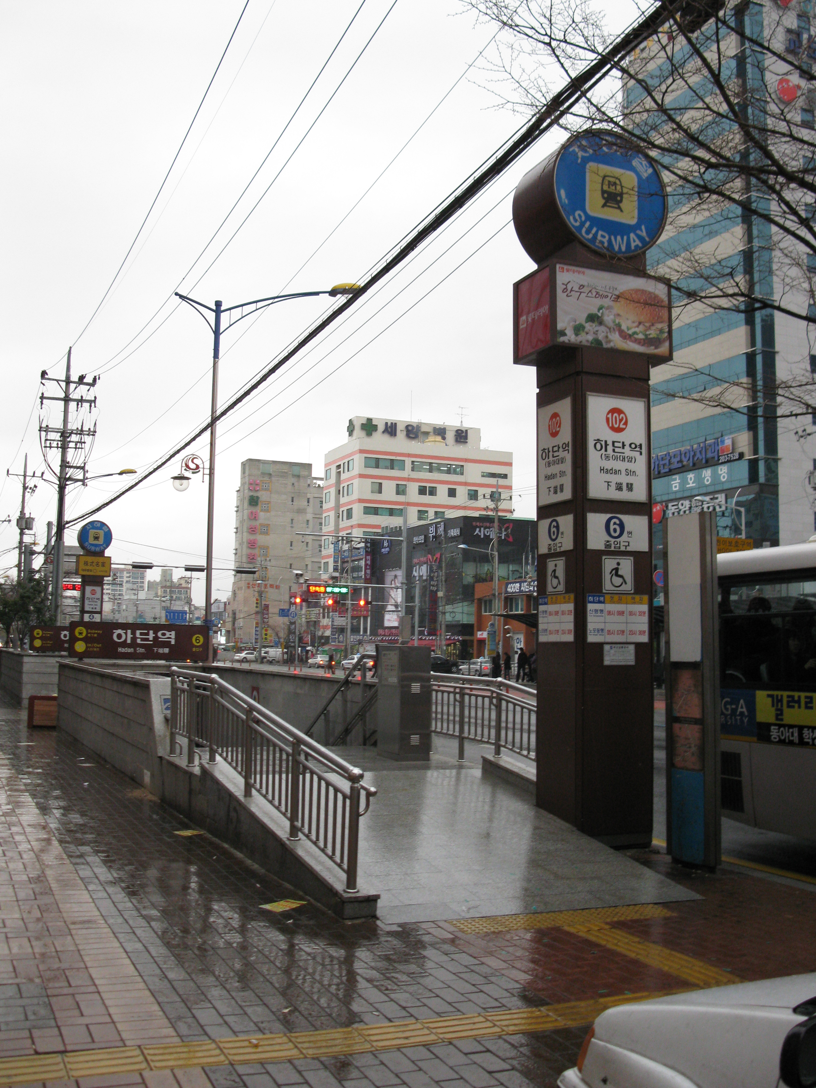 Hadan Station no.6 entrance (Busan Subway Line 1)